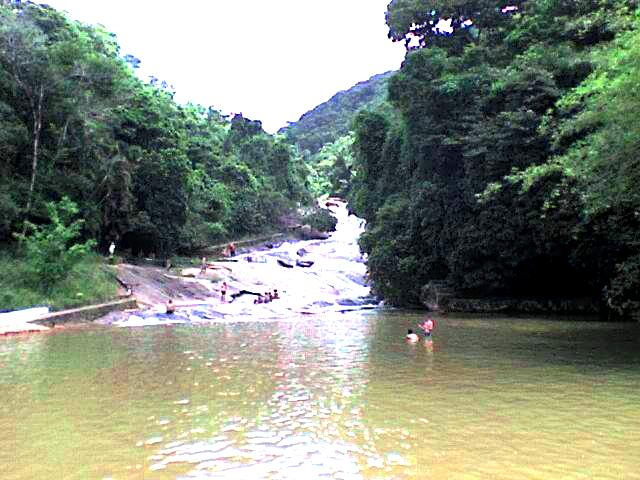 Waterfall and natural pool in the Parque das Cachoeiras, in Ipatinga, Minas Gerais, Brazil.